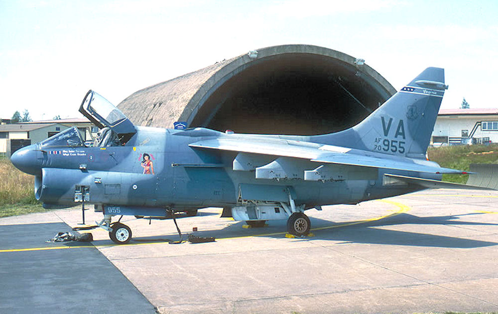 VA ANG 149th Tactical Fighter Squadron A-7D-7-CV Corsair II 70-955 1971: Aircraft delivered to 354th Tactical Fighter Wing/356th TFS, Myrtle Beach AFB, SC (C/N D-101) Transferred to 23d Tactical Fighter Wing/75th TFS, 1978 Transferred to 149th Tactical Fighter Squadron, VA Air National Guard, 1982 Transferred to AMARC as AE0126 Feb 18, 1991 Sent to reclamation, April 1997